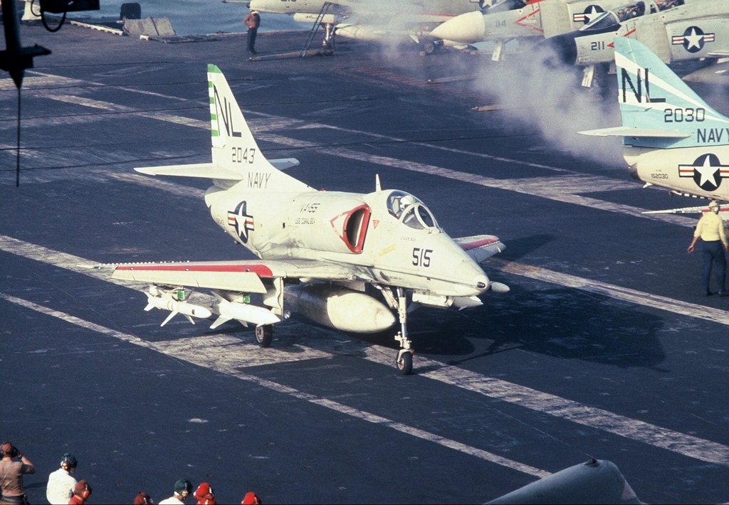 A U.S. Navy Douglas A-4E Skyhawk (BuNo 152043) from attack squadron VA-155 Silver Foxes aboard the aircraft carrier USS Coral Sea (CVA-43) in 1967. VA-155 was assigned to Attack Carrier Air Wing 15 (CVW-15) for a deployment to Vietnam from 26 July 1967 to 8 April 1968. The aircraft is armed with AGM-45 Shrike and AGM-12 Bullpup missiles. It was lost in an accident while in service with VA-94 on 6 May 1969.